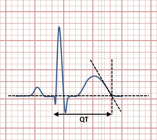 Cartoon showing measurement of the QT interval